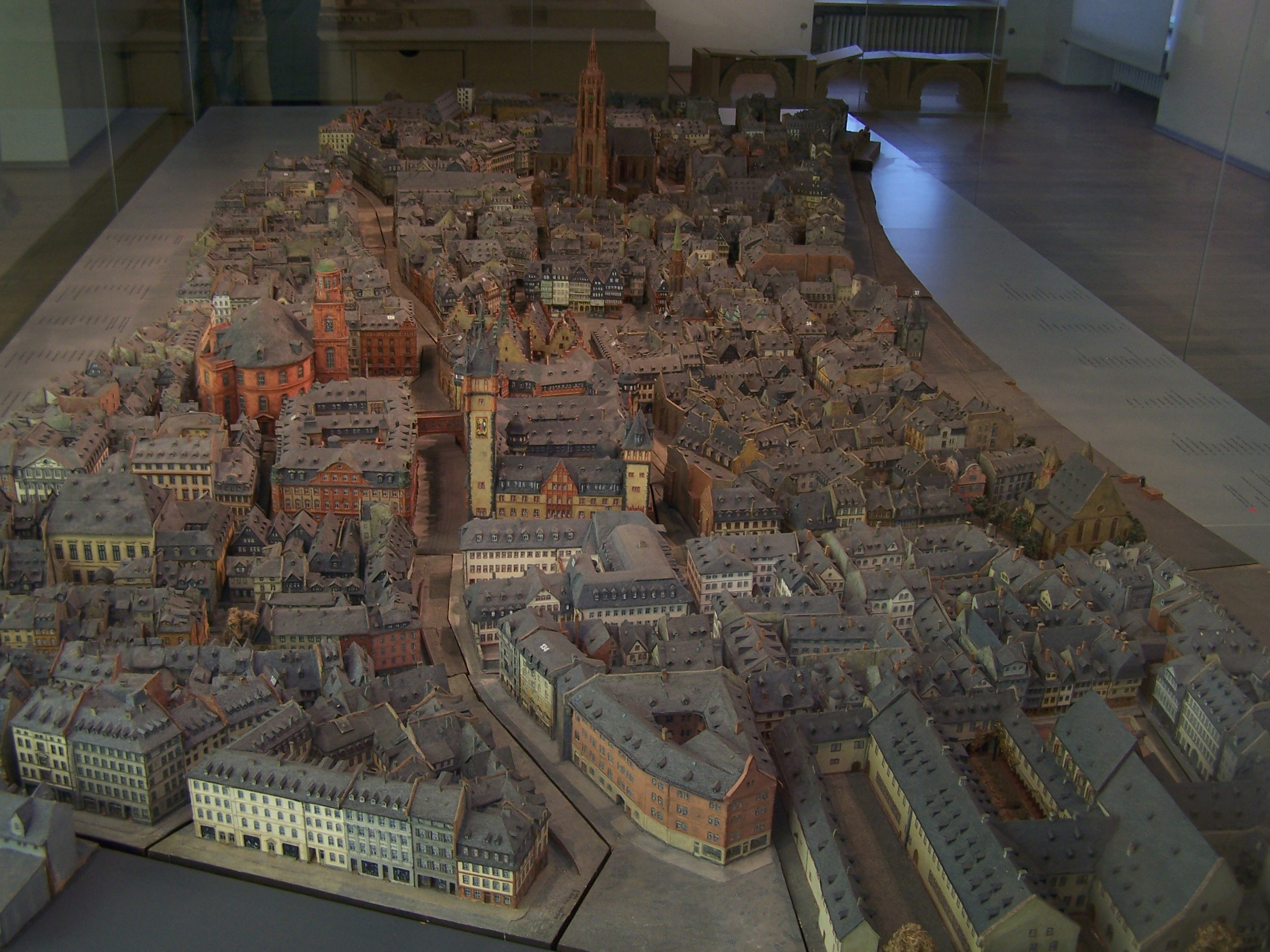 Treuner brothers model of ancient Frankfurt am Main, seen from west